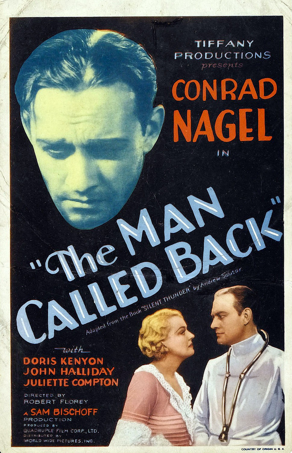 Window poster for the 1932 film The Man Called Back.